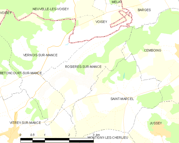 Map of French municipality